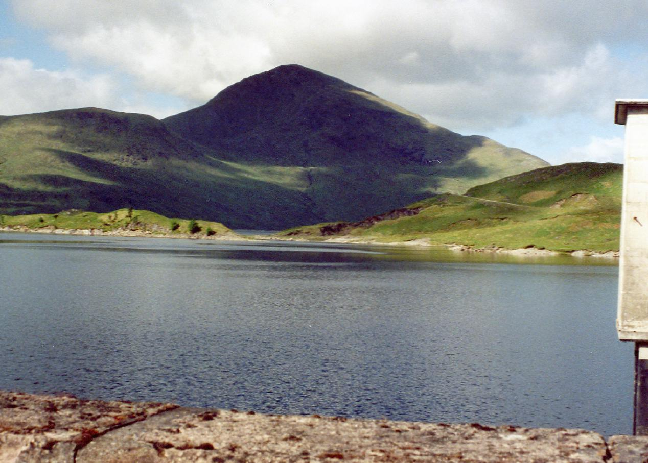 Personal picture taken by Mick Knapton